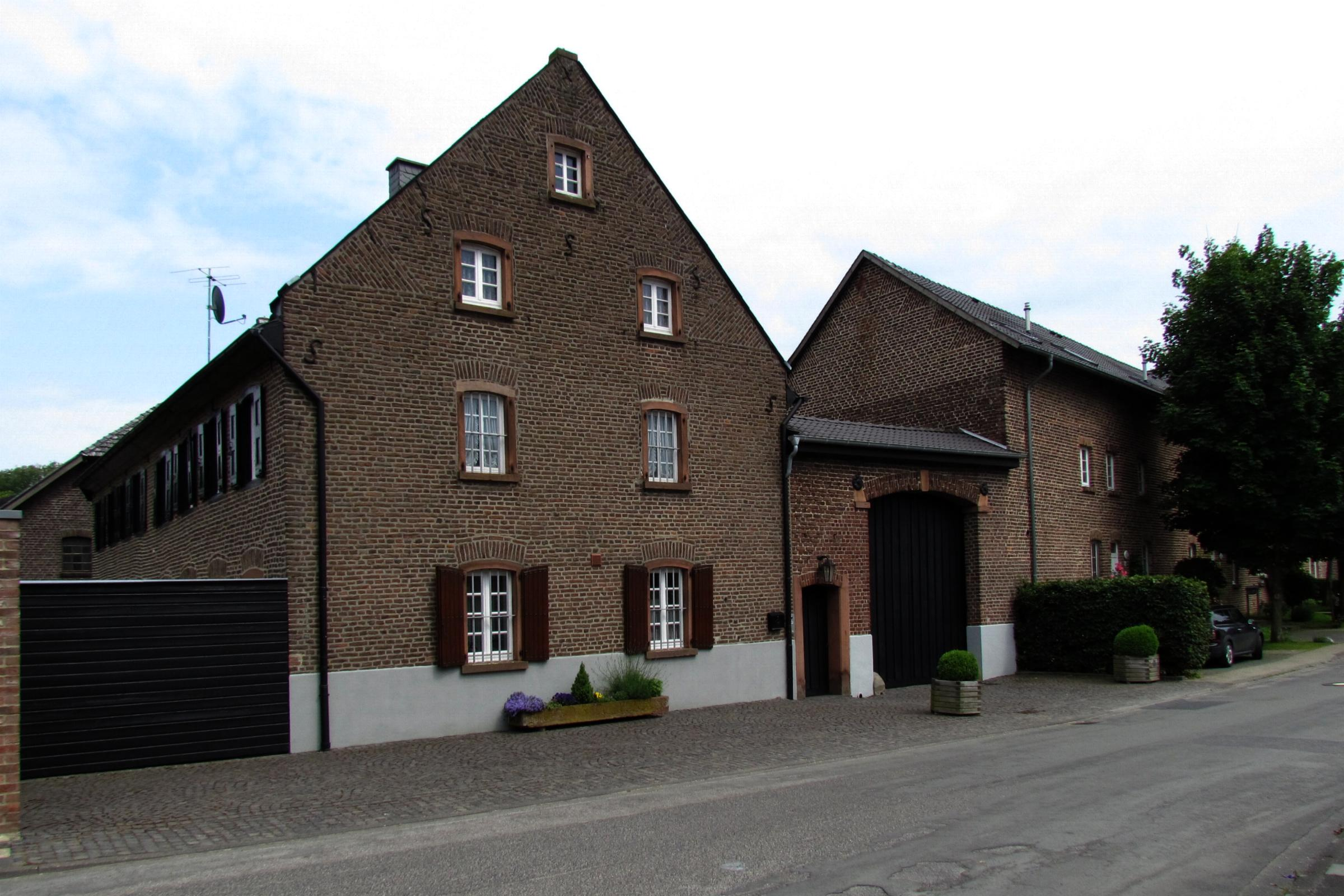 This is a photograph of an architectural monument.It is on the list of cultural monuments of Korschenbroich